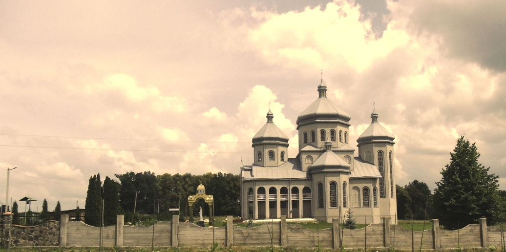 The Church of St. Demetrius and of the Epiphany. Lysovychi, Stryiskyi district, Lviv region.